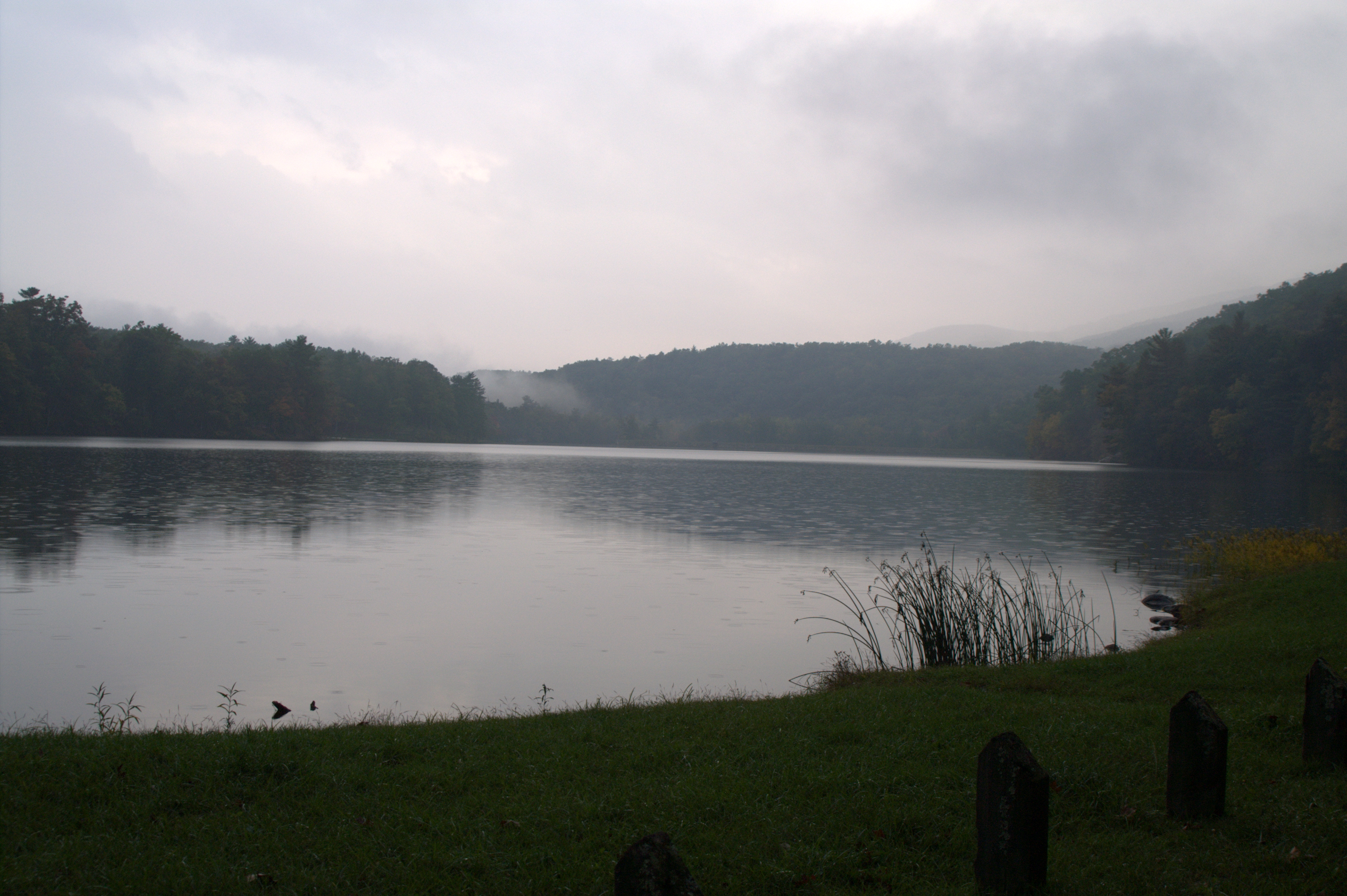 Douthat Lake on a rainy evening in Douthat State Park, Virginia, USA.